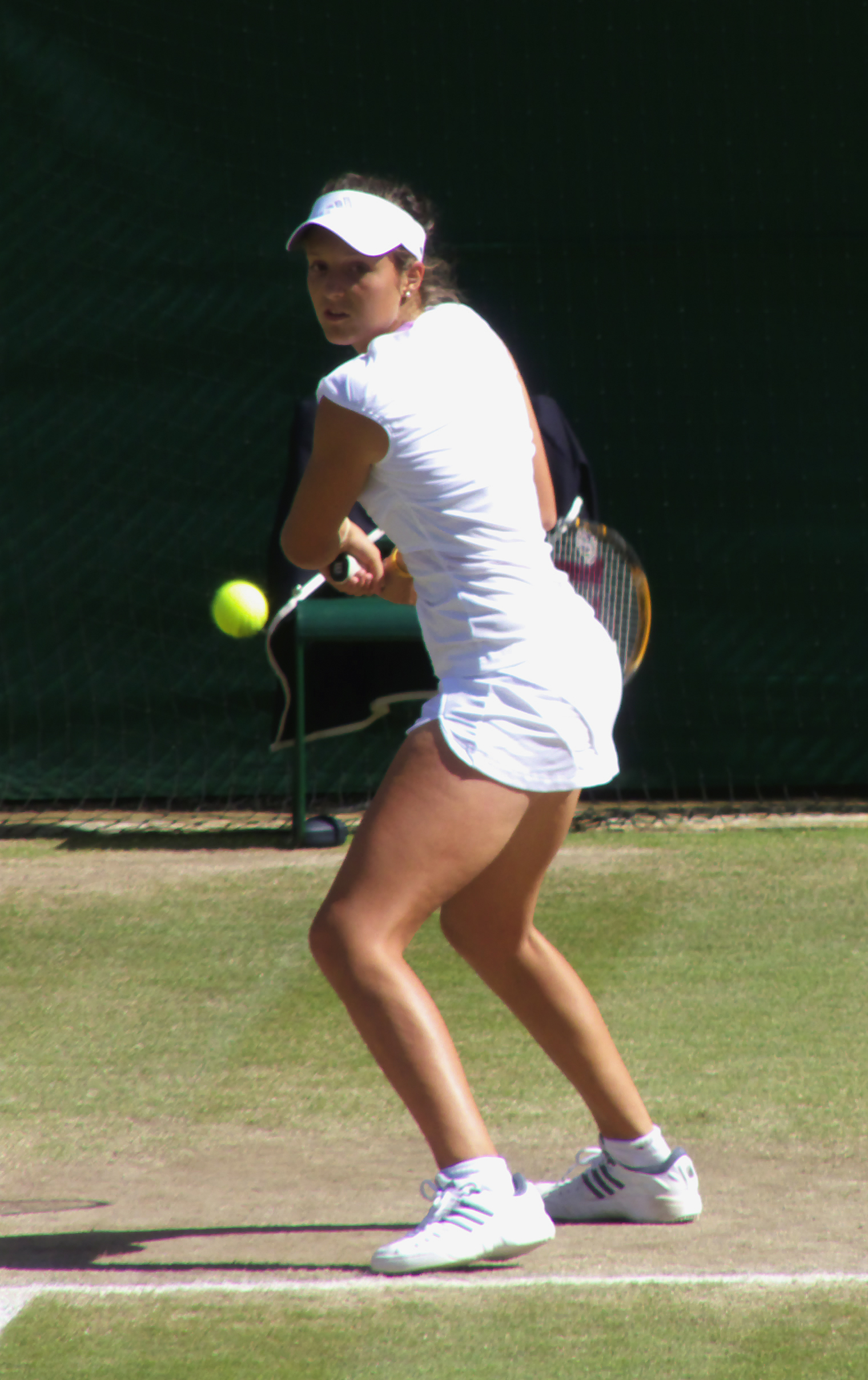 Laura Robson at the 2008 Wimbledon championships